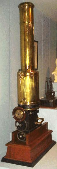 This Naphtha Engine was built by the Gas Engine & Power Company of New York, ca 1899. It is in the collection at The Mariners' Museum in Newport News, VA.